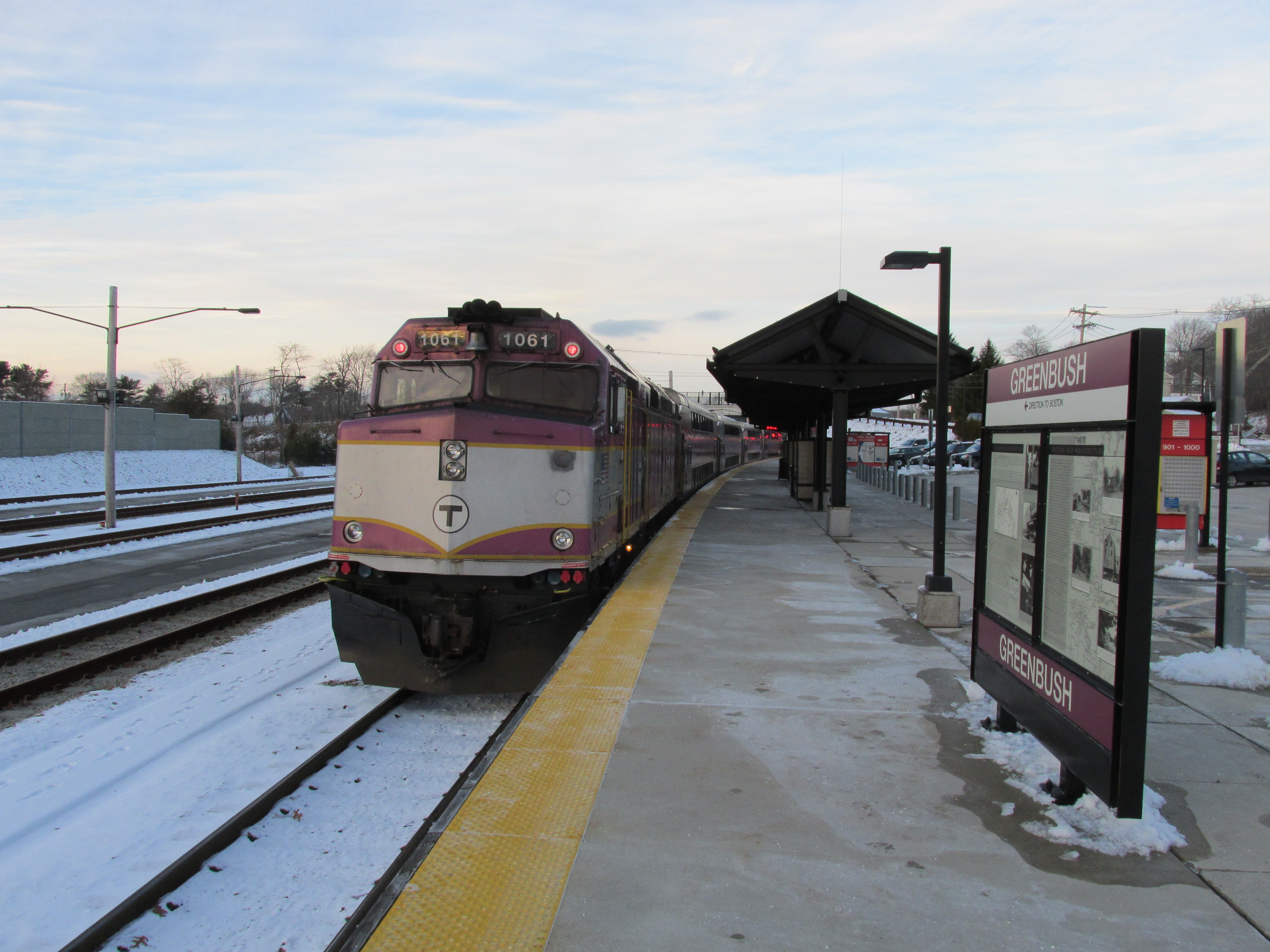 An inbound train leaves the Greenbush MBTA station in Scituate Massachusetts